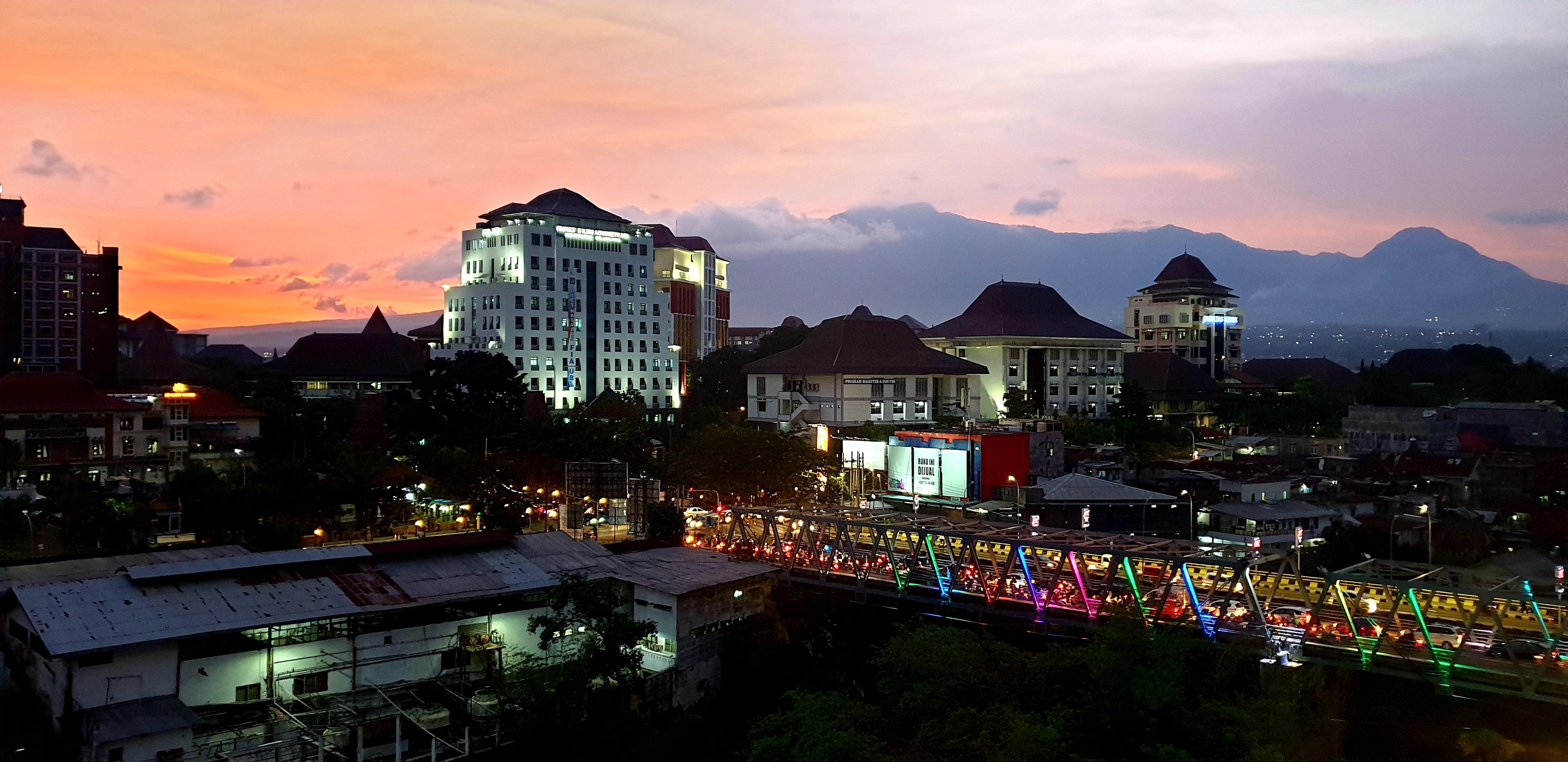 2018-11-15 Northern Side of Brawijaya University view from Apartment Suhat at dusk